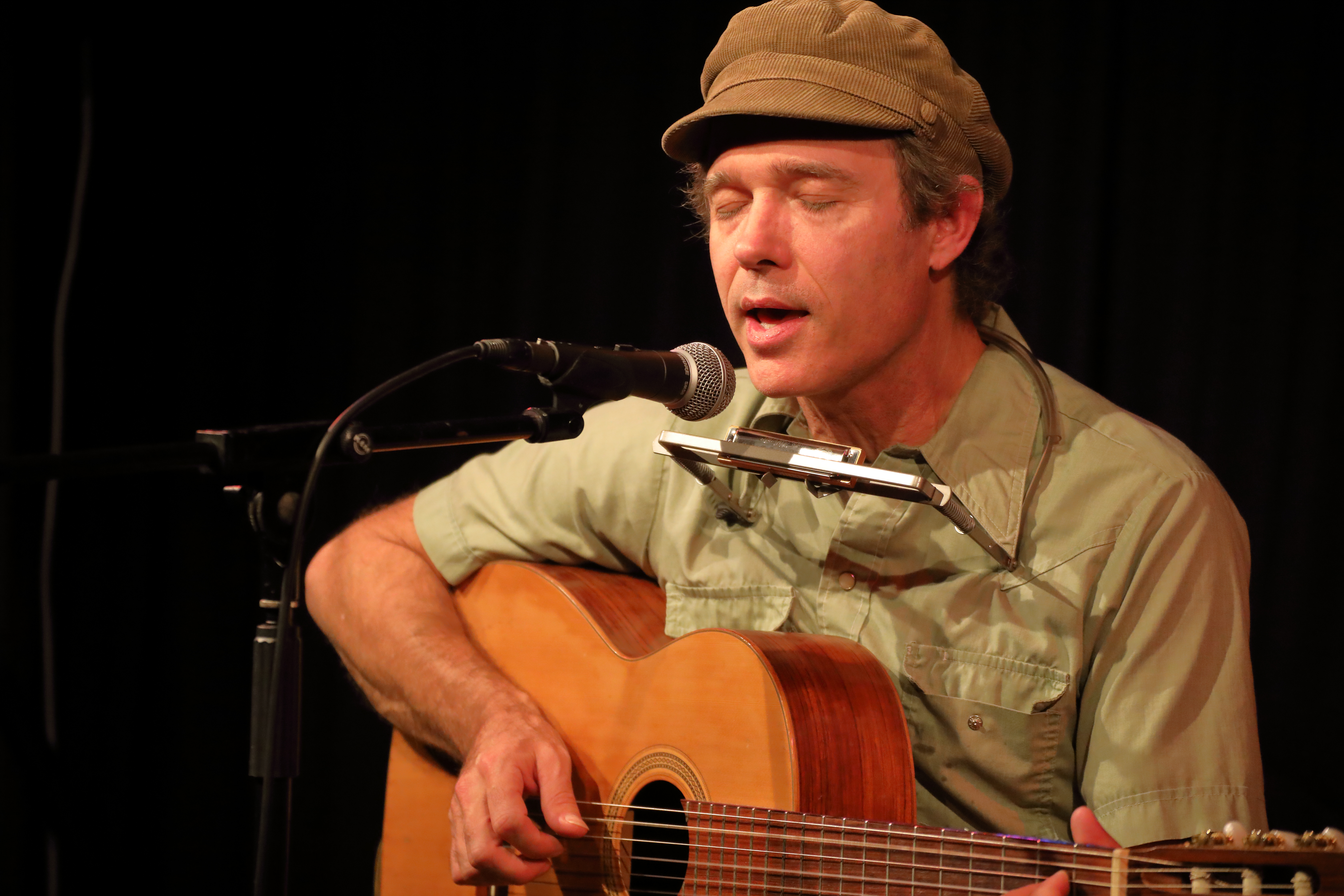 Singer-songwriter Simon Joyner from Omaha, Nebraska in concert at Club W71, Weikersheim.